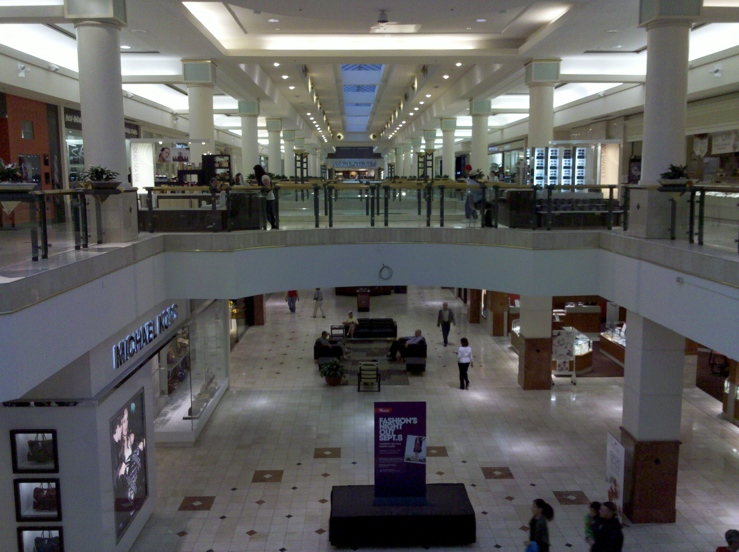 Nordstrom wing at Montgomery Mall in Bethesda, Maryland, taken from the center of the mall, near the Apple Store.